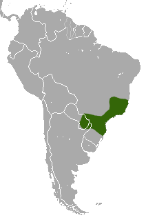 Tate's Woolly Mouse Opossum (Micoureus paraguayanus) range